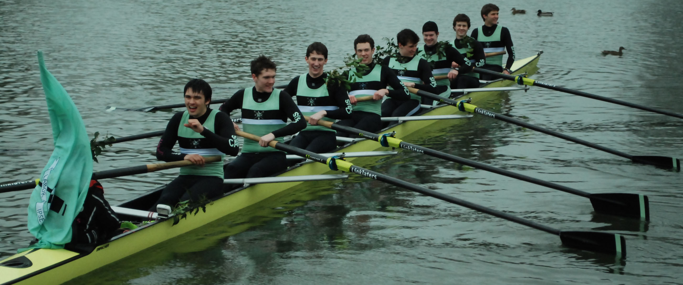 Caius M1 with flag after becoming head.